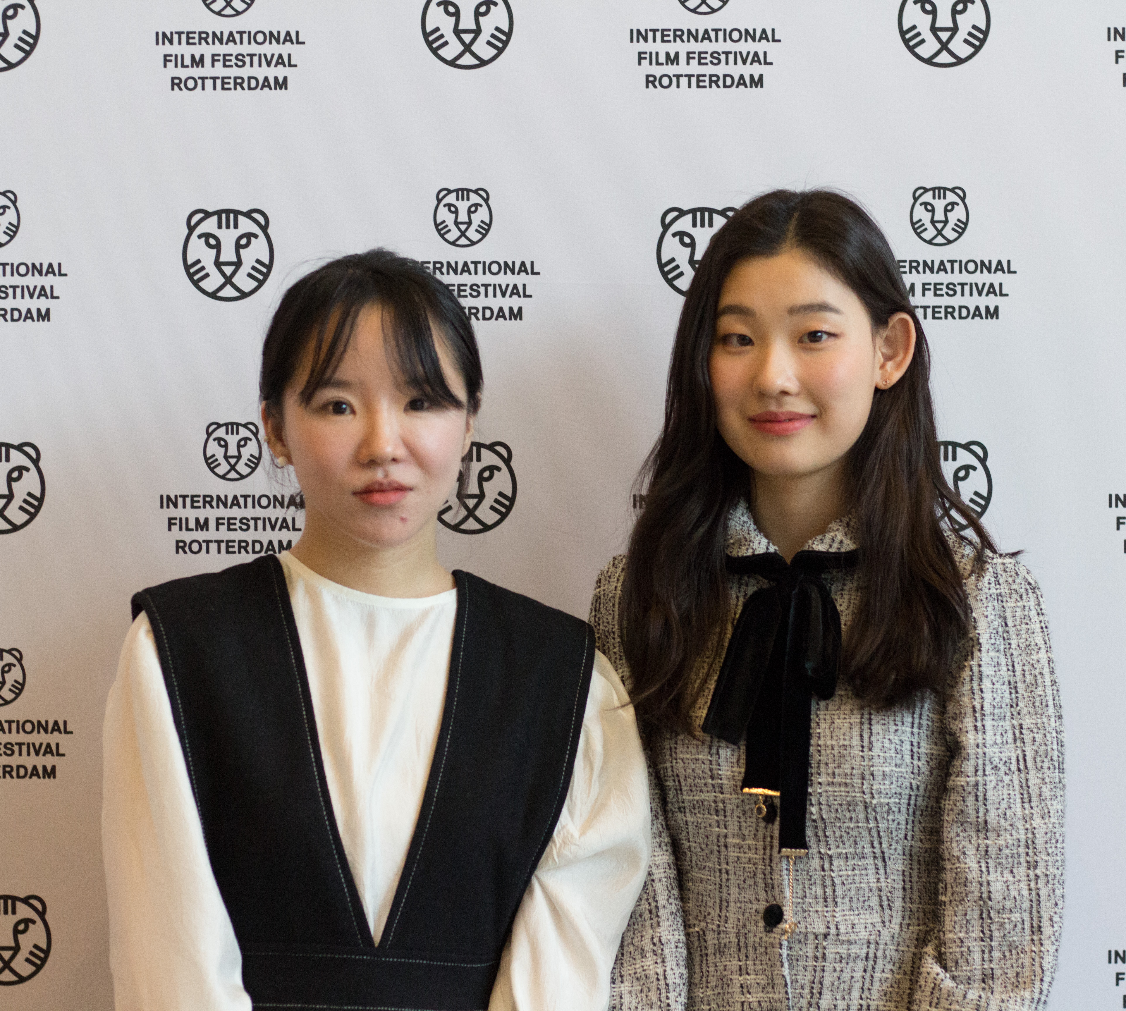 Yoon Dan-bi and Choi Jung-un at the IFFR 2020 promoting their movie "Moving On"